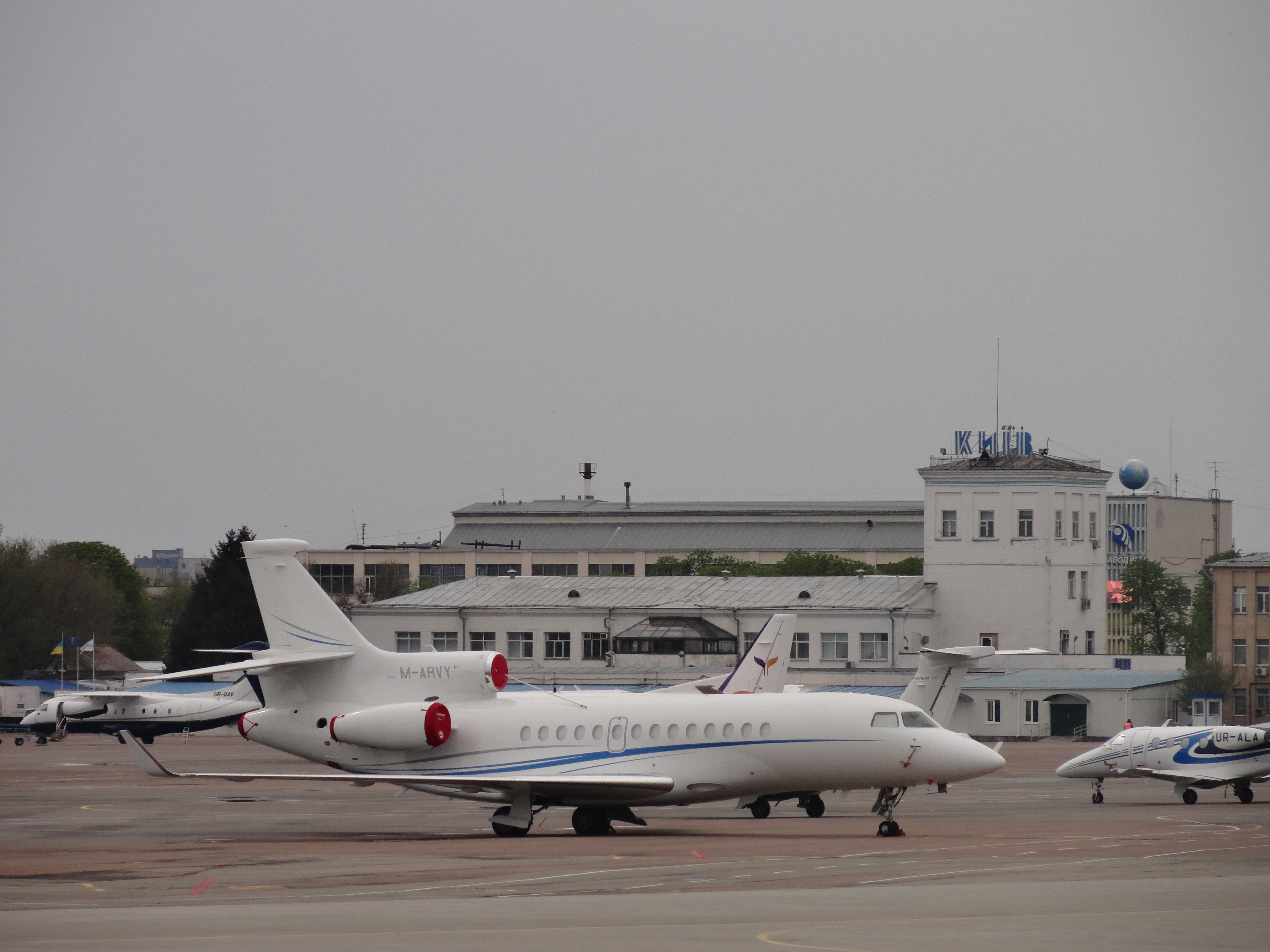 M-ARVY, Dassault Falcon 7X,Kyiv International Airport (Zhuliany